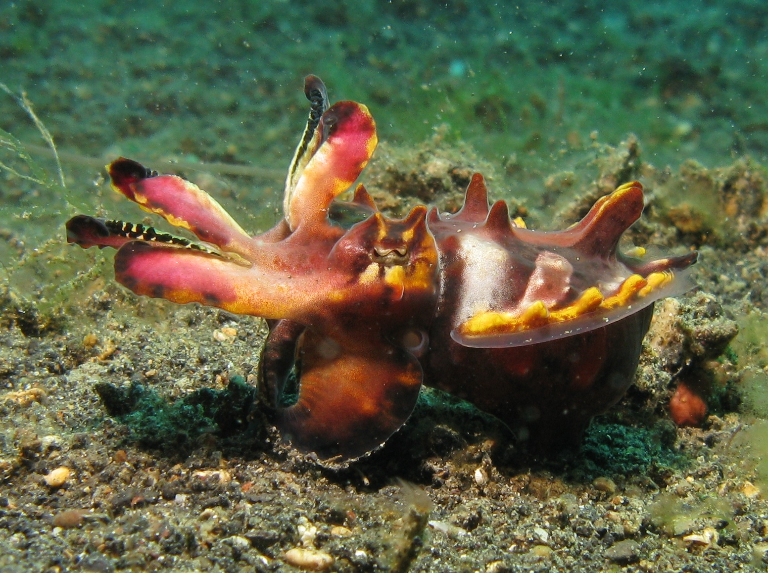 Flamboyant Cuttlefish